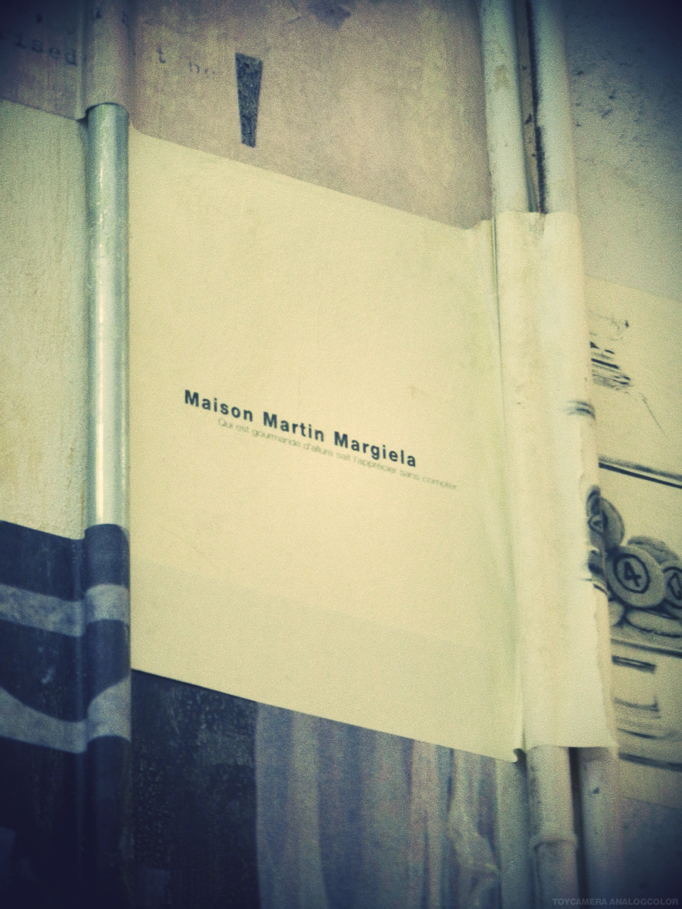 Store of French fashion brand Maison Martin Margiela (in Soho, New York, 2011)